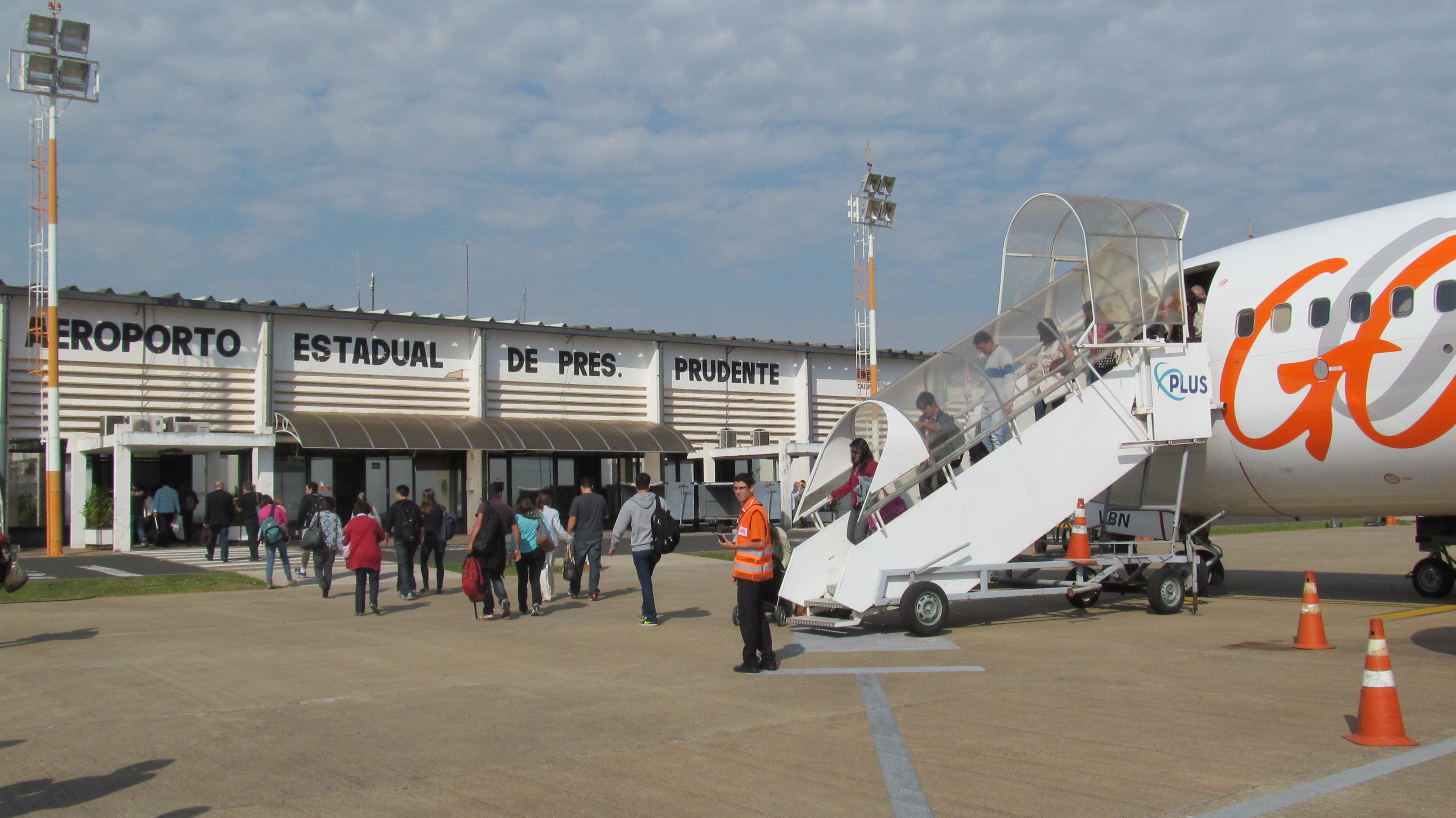 Presidente Prudente Airport (PPB) 737-700 arrival, São Paulo, Brazil